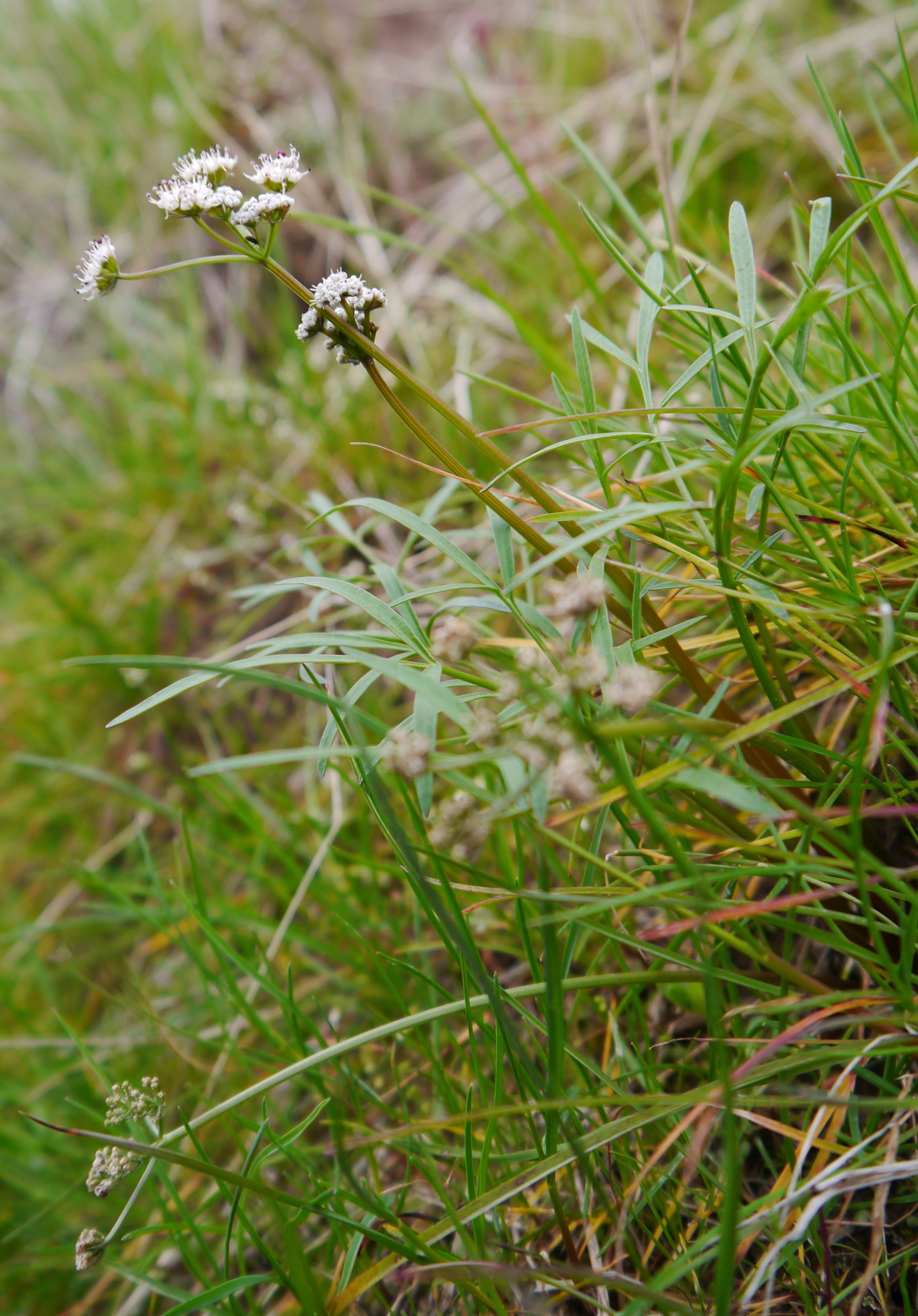 Lomatium geyeri in East Wenatchee, Douglas County Washington